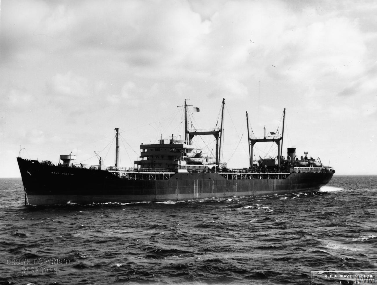 RFA WAVE VICTOR underway